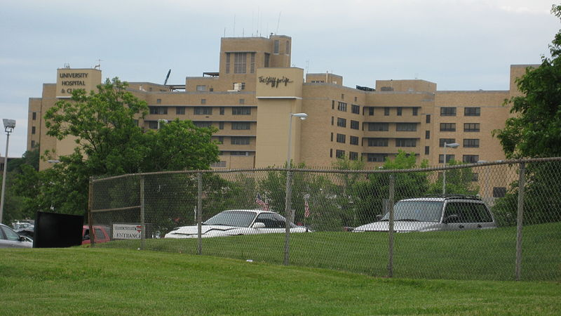 Photo of the University of Missouri school of medicine teaching hospital